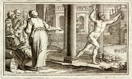 This is now called 'Archimedes' Principle' or the 'Principle of Buoyancy'. Vignette from the title of italian page "Historical and critical information about the life, inventions and writings of Archimedes of Syracuse" by Count Giammaria Mazzuchelli (1707-1765), published in Brescia, Italy in 1737.